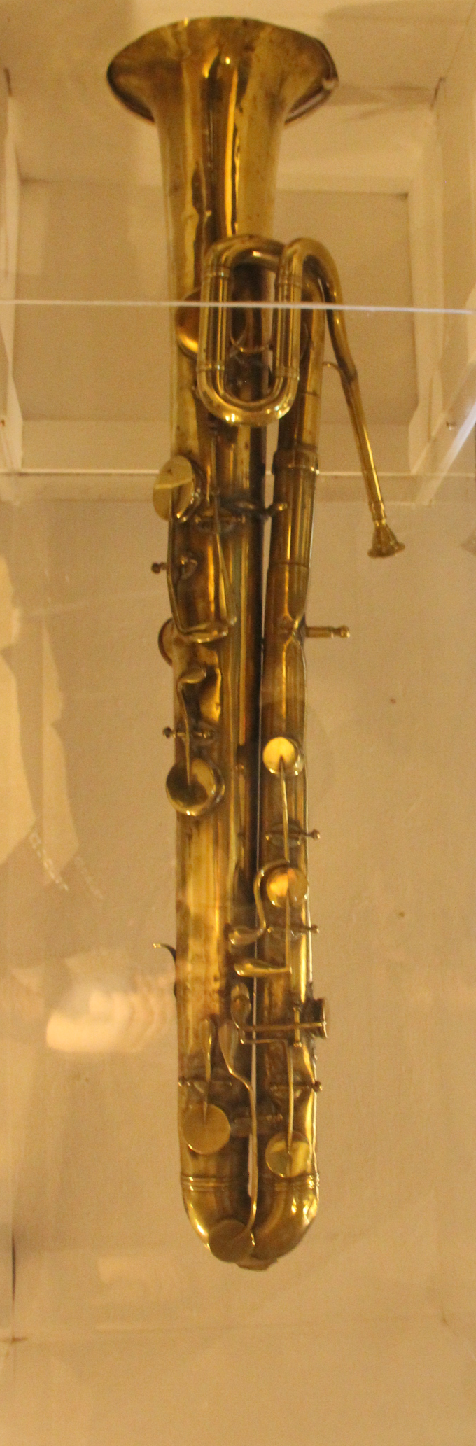 Ophicleide